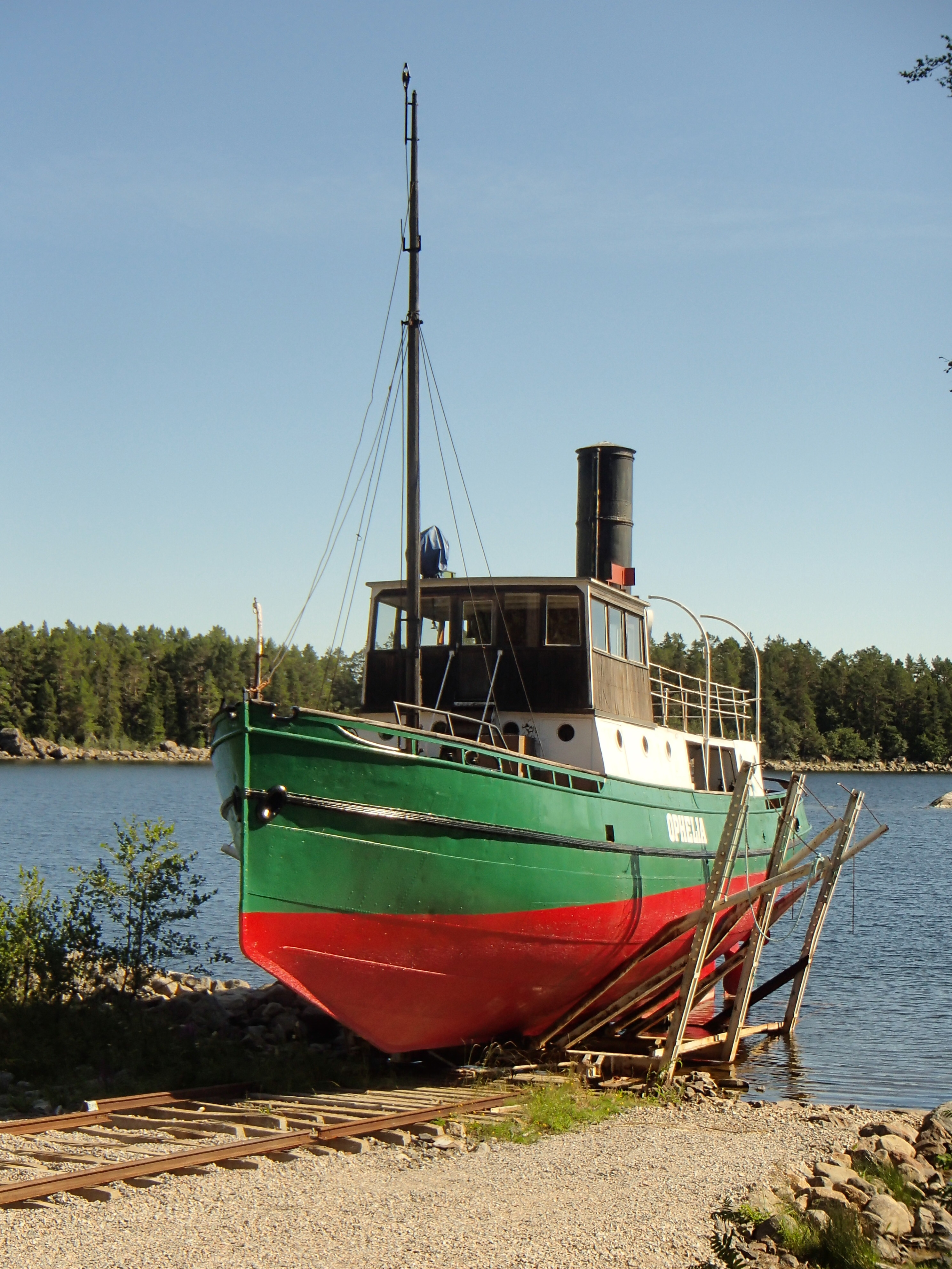 Ship owned by the "Galtströmståget" heritage railway at the Galtström ironworks in Galtström, Sundsvall Municipality